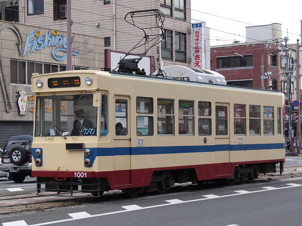 Type1000,Tosa Electric Railway,Japan